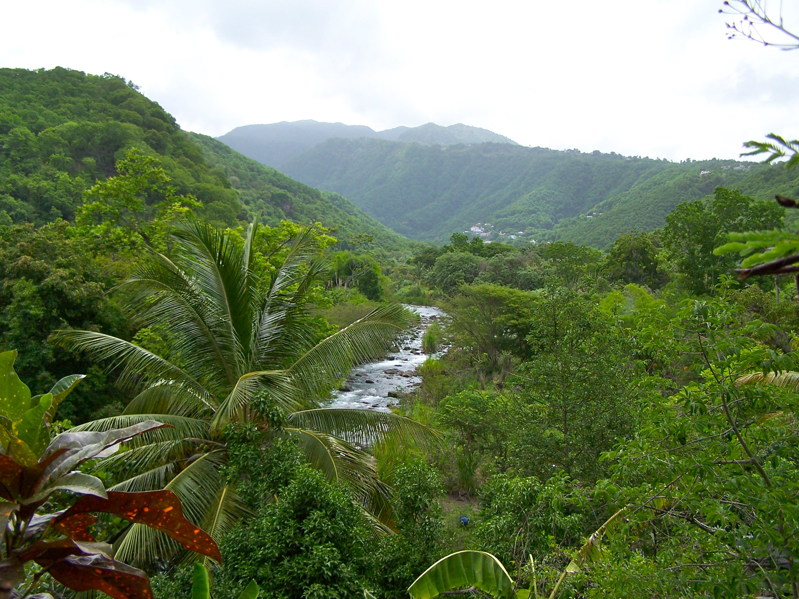 Schœlcher et la Grande-Rivière des Vieux-Habitants